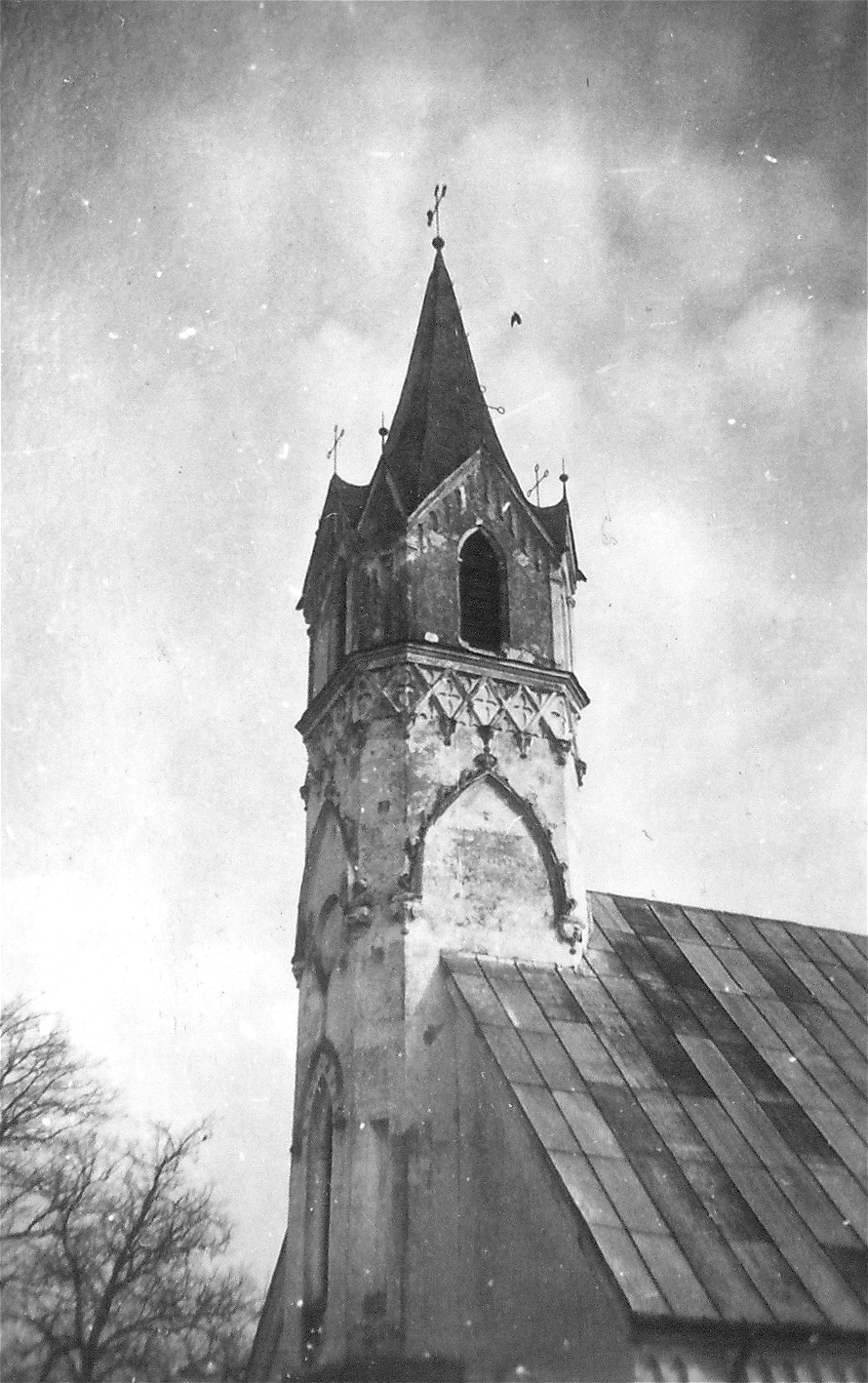 Spire of the Evangelical Lutheran church (Kościół Ewangelicko-Augsburski) in Pilica, c.1939. The church was probably destroyed, either during the Soviet Red Army offensive which established the Magnuszew bridgehead on the west bank of the Vistula on 2 August 1944 or in subsequent German counterattacks before the Soviet breakout on 12 January 1945, because it was on a prominent location on the north bank of the Pilica River which formed part of the front line during this period.